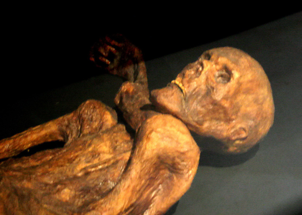 reconstruction of Ötzi mummy as shown in Prehistory Museum of Quinson, Alpes-de-Haute-Provence, France